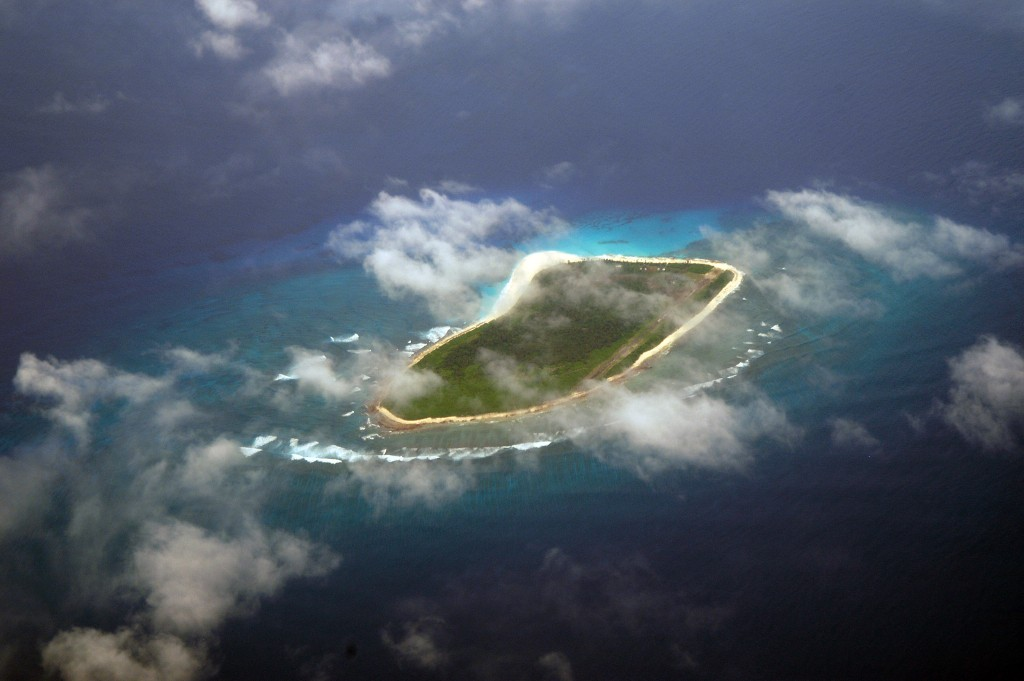 Marie Louise Island, Amirantes, Outer Islands of the Seychelles